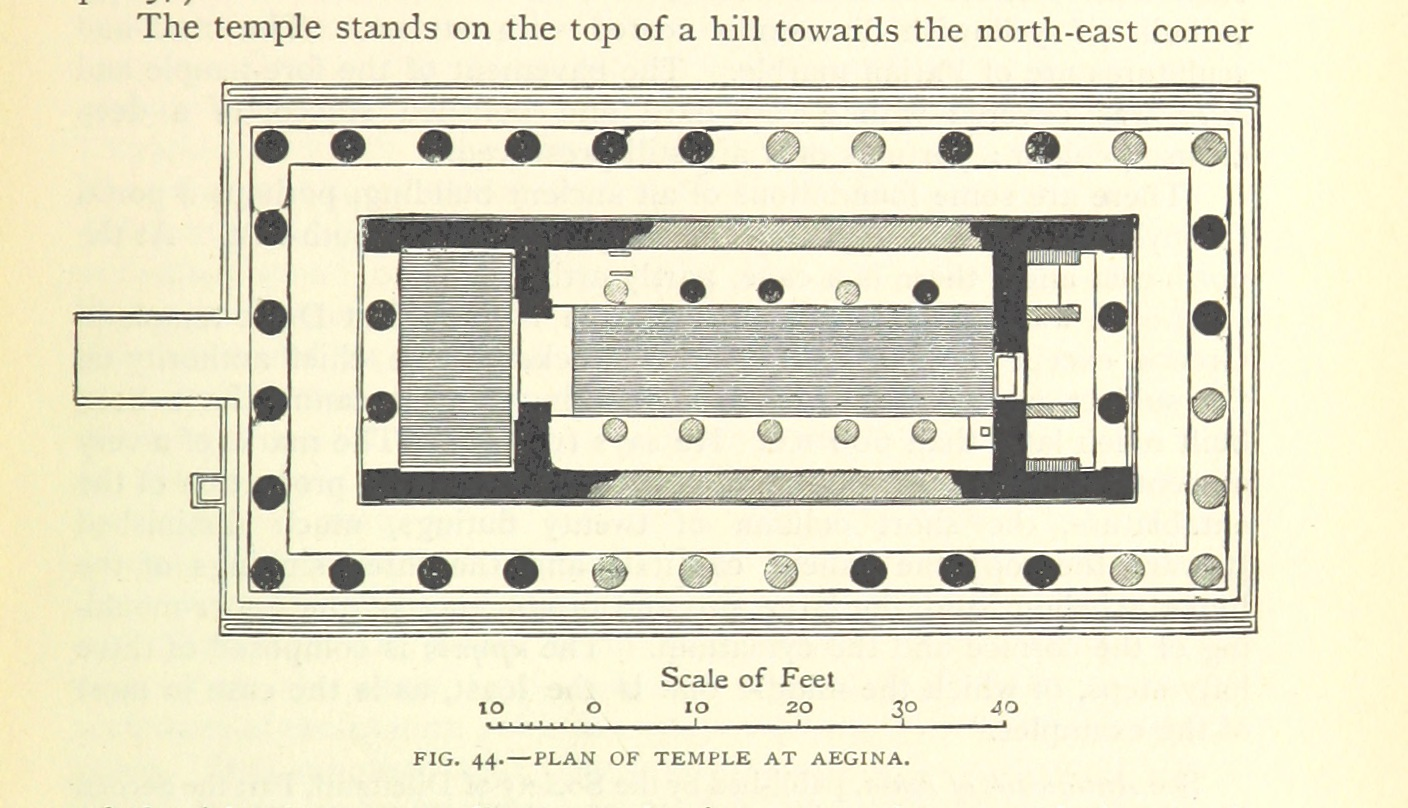 View this map on the BL Georeferencer service. Image taken from: Title: "Pausanias's Description of Greece. Translated with a commentary by J. G.Frazer" Contributor: Frazer, James George - Sir Shelfmark: "British Library HMNTS 010127.b.36." Volume: 03 Page: 293 Place of Publishing: London Date of Publishing: 1898 Publisher: Macmillan & Co. Issuance: monographic Identifier: 002798431 Explore: Find this item in the British Library catalogue, 'Explore'. Open the page in the British Library's itemViewer (page image 293) Download the PDF for this book Image found on book scan 293 (NB not a pagenumber)Download the OCR-derived text for this volume: (plain text) or (json) Click here to see all the illustrations in this book and click here to browse other illustrations published in books in the same year. Order a higher quality version from here.